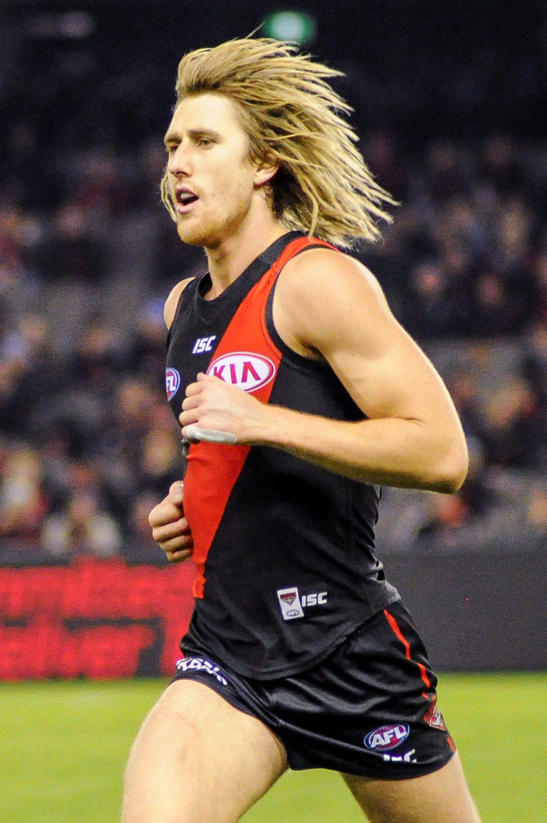 Dyson Heppell during the AFL round twelve match between Essendon and Port Adelaide on 10 June 2017 at Etihad Stadium in Melbourne, Victoria.